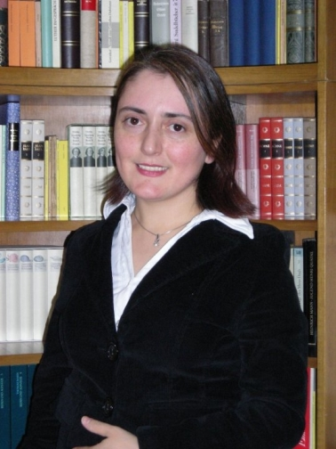 Irma Shiolashvili, 2011